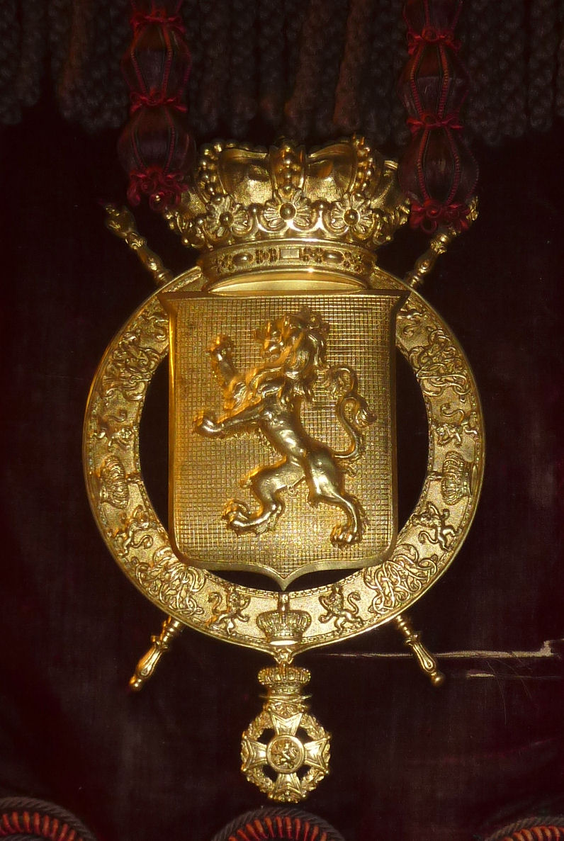 Royal carriages /Belgium